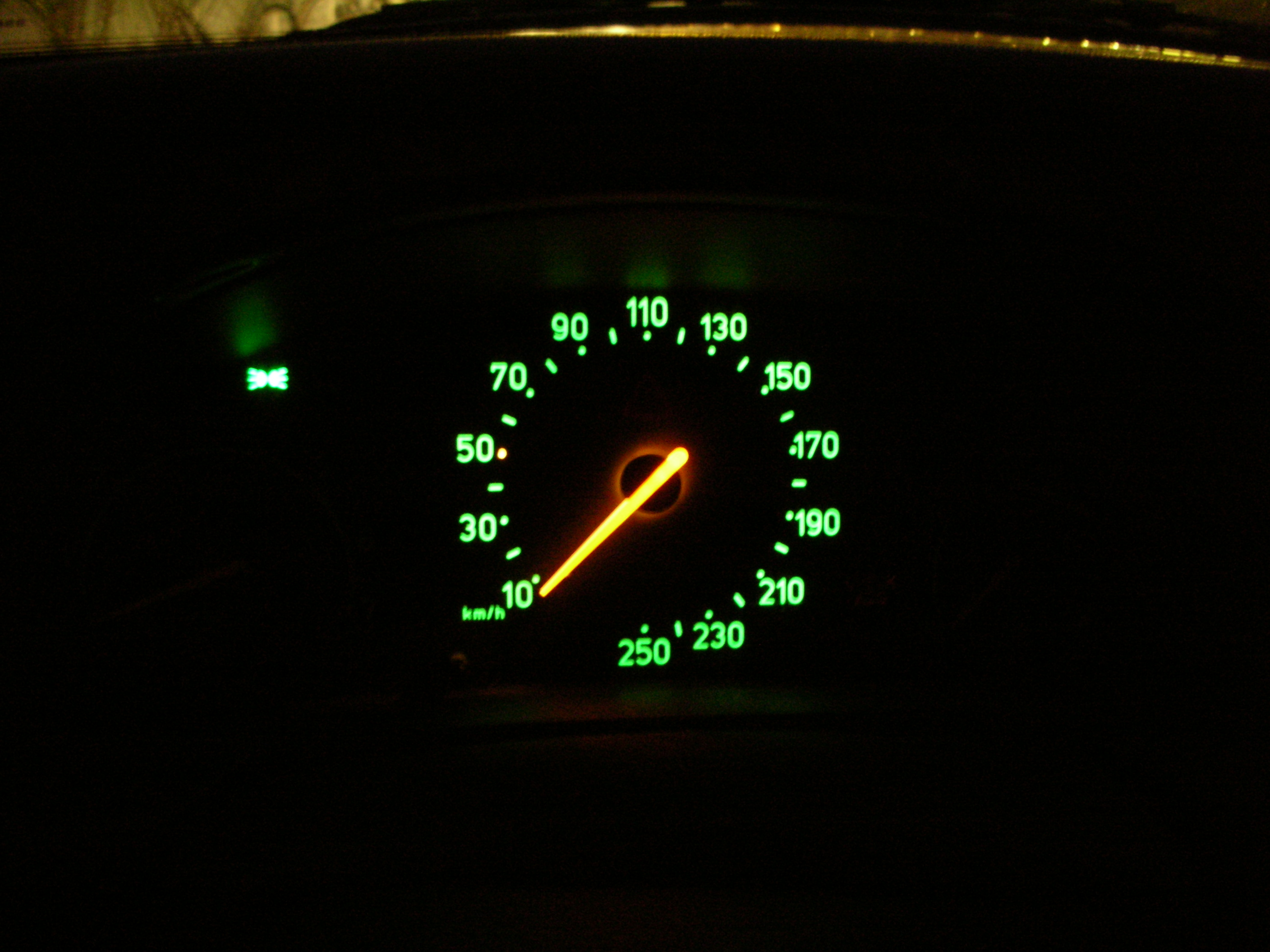 Dashboard of a 1995 Saab 900 2.0 Turbo, Night Panel activated.